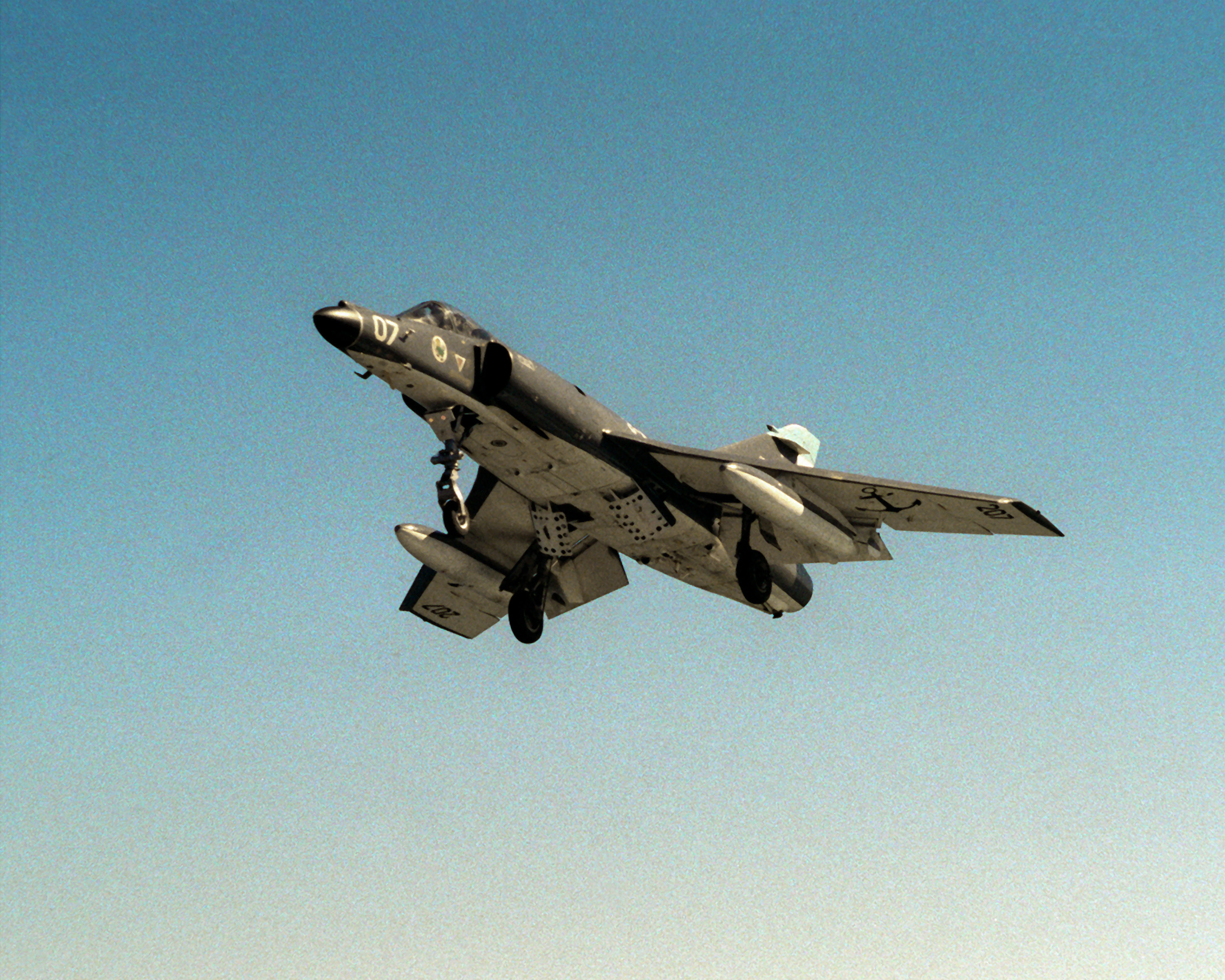 A Super Etendard aircraft of the Argentine navy approaches the flight deck of the nuclear-powered aircraft carrier USS ABRAHAM LINCOLN (CVN-72). The plane is taking part in touch-and-go landings aboard the LINCOLN during the vessel's circumnavigation of South America.